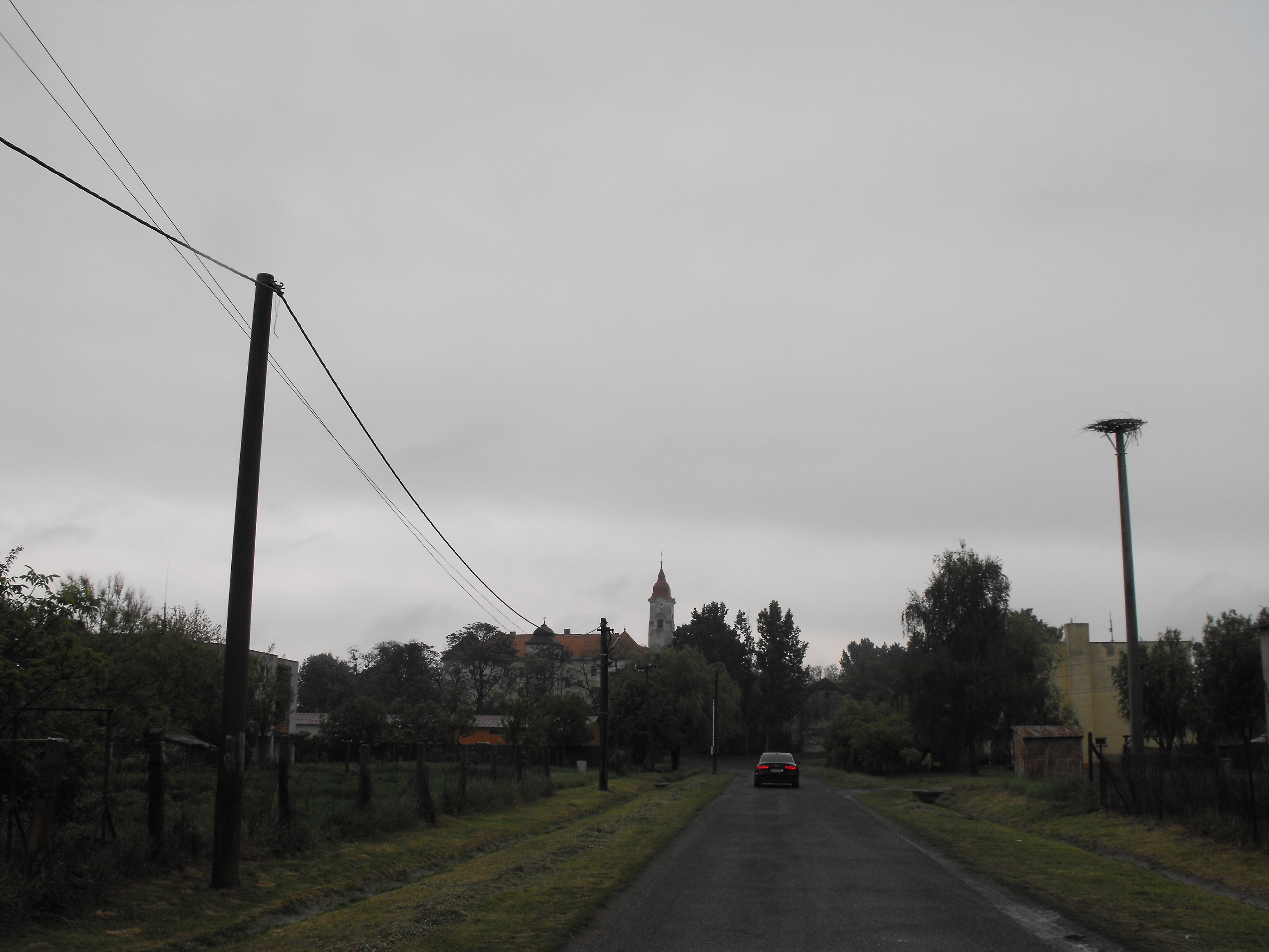 Pohľad na kláštor v Lelesi